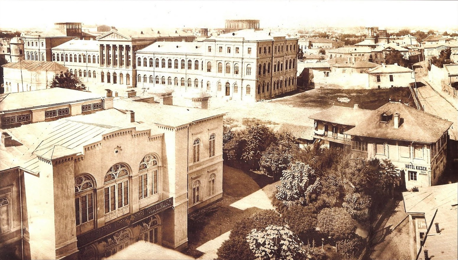 Universitatea